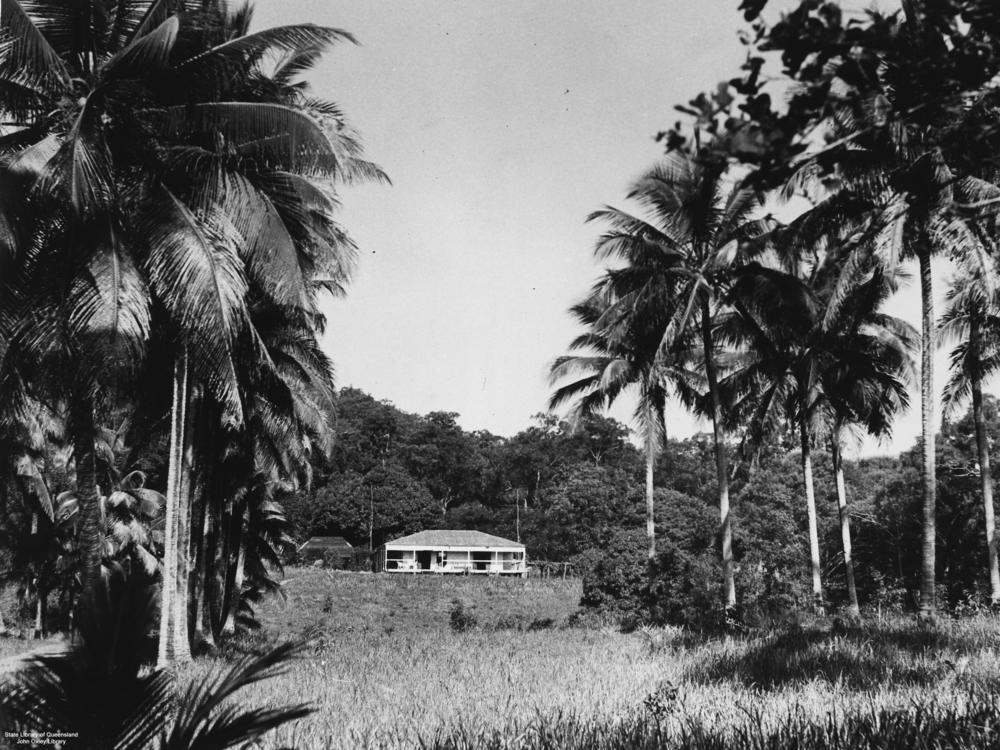 Residence of E. J. Banfield on Dunk Island, 1935 Queenslander house set in a tropical rainforest with some large palms in front the house.